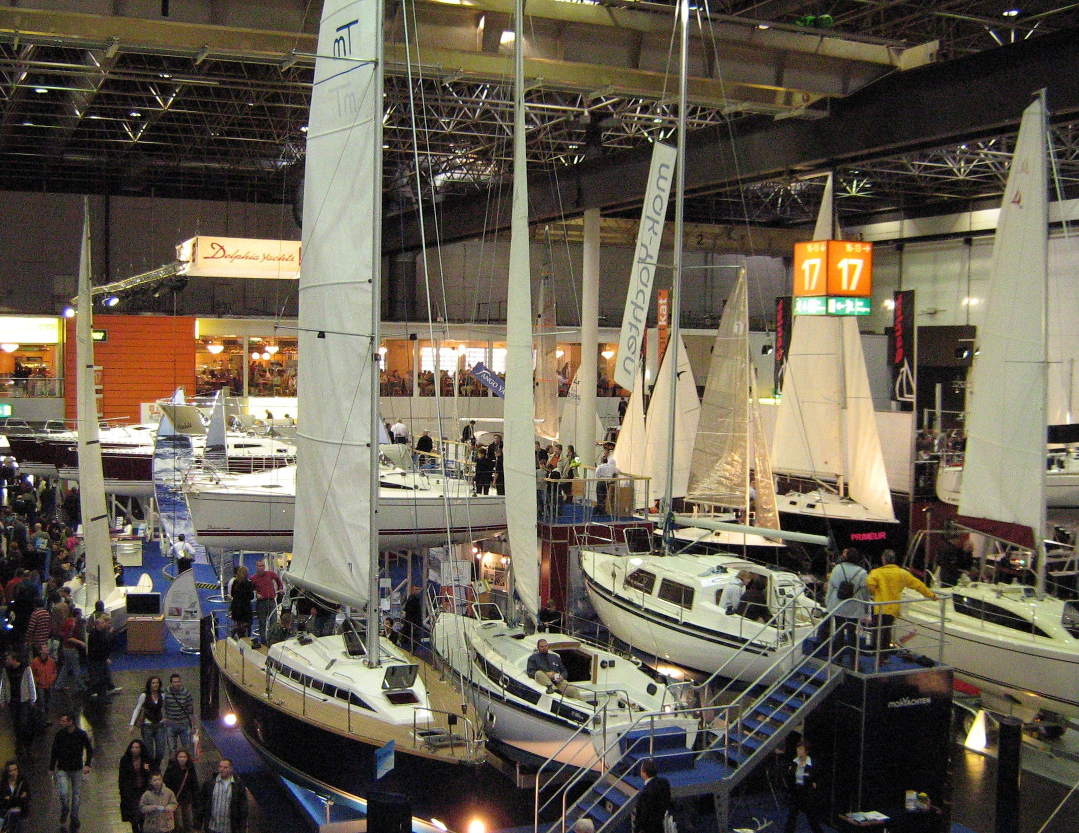 View of an exhibition hall of the exhibition "boot" in Düsseldorf, germany